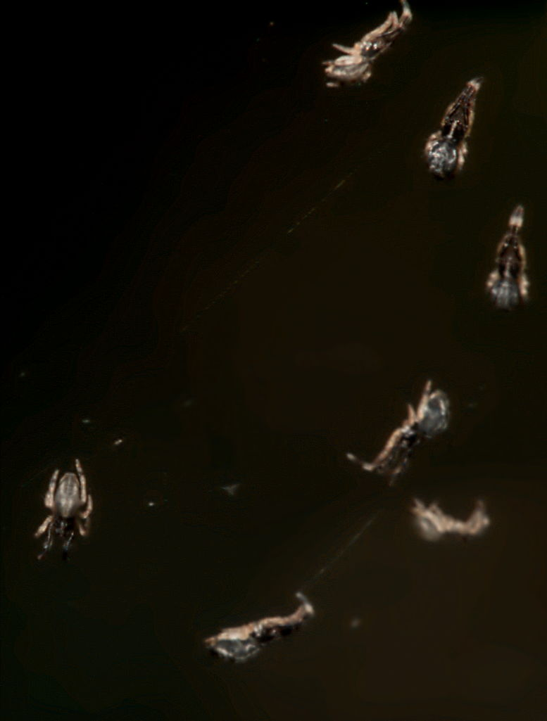 Very young Uloborus plumipes spiderlings from Cologne Zoo, Germany.